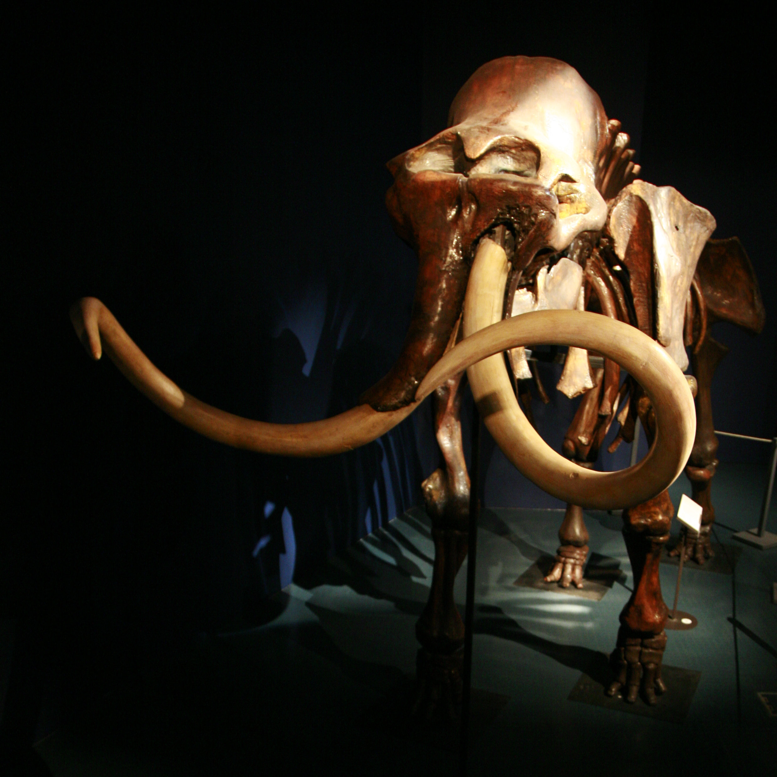 Mammoth on display at Neuchâtel natural history museum